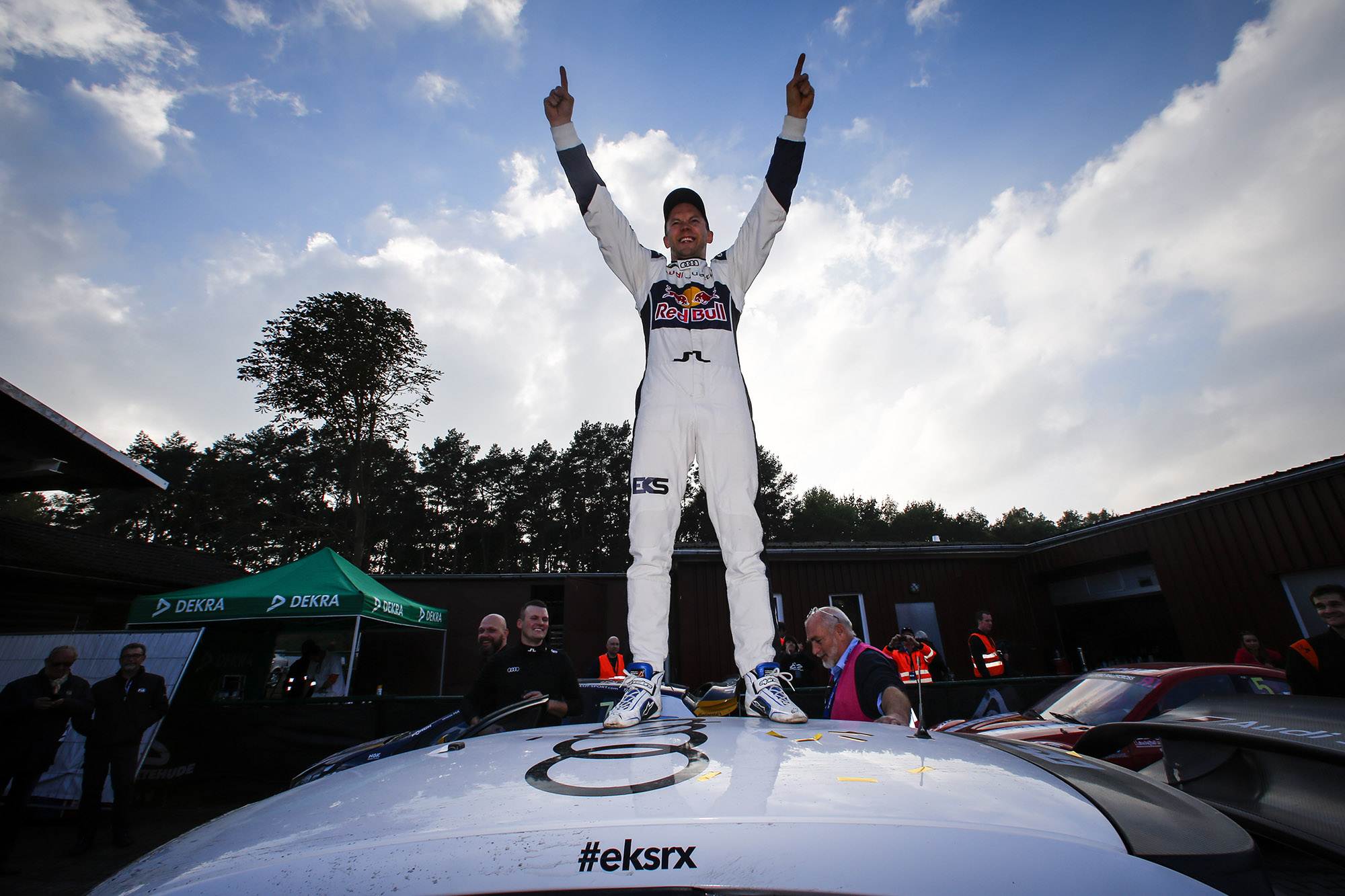 2016 FIA World RX Rallycross Championship / Round 11 / Buxtehude, Germany / October 14-16, 2016 // Worldwide Copyright:Colin McMaster/EKS/McKlein